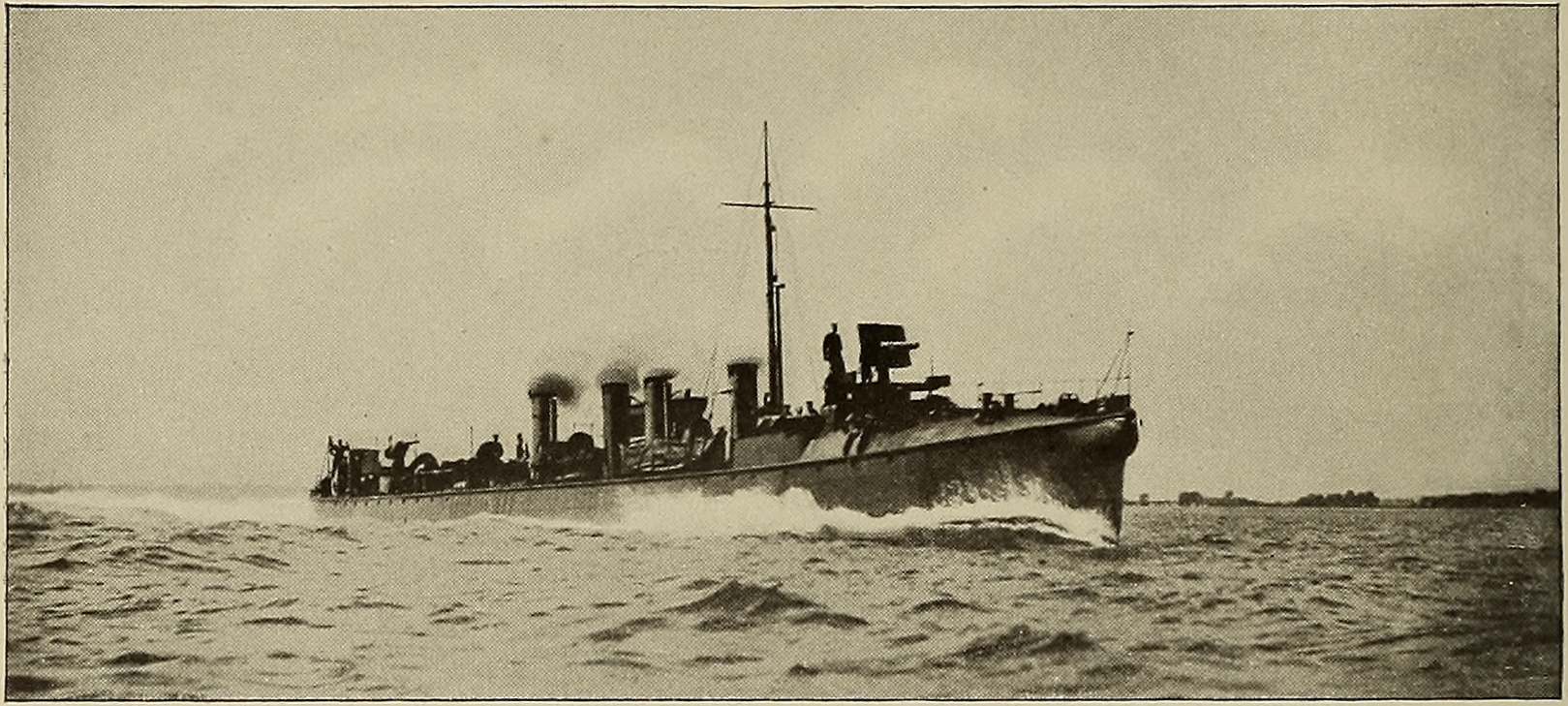 Cassier's Magazine of February 1897 had an article on page 251-259, written by R. B. Moyer and titled The Whitehead Automobile Torpedo. It was accompanied by a number of illustrations, including this photo of the recently built Russian destroyer Sokol, on page 258.